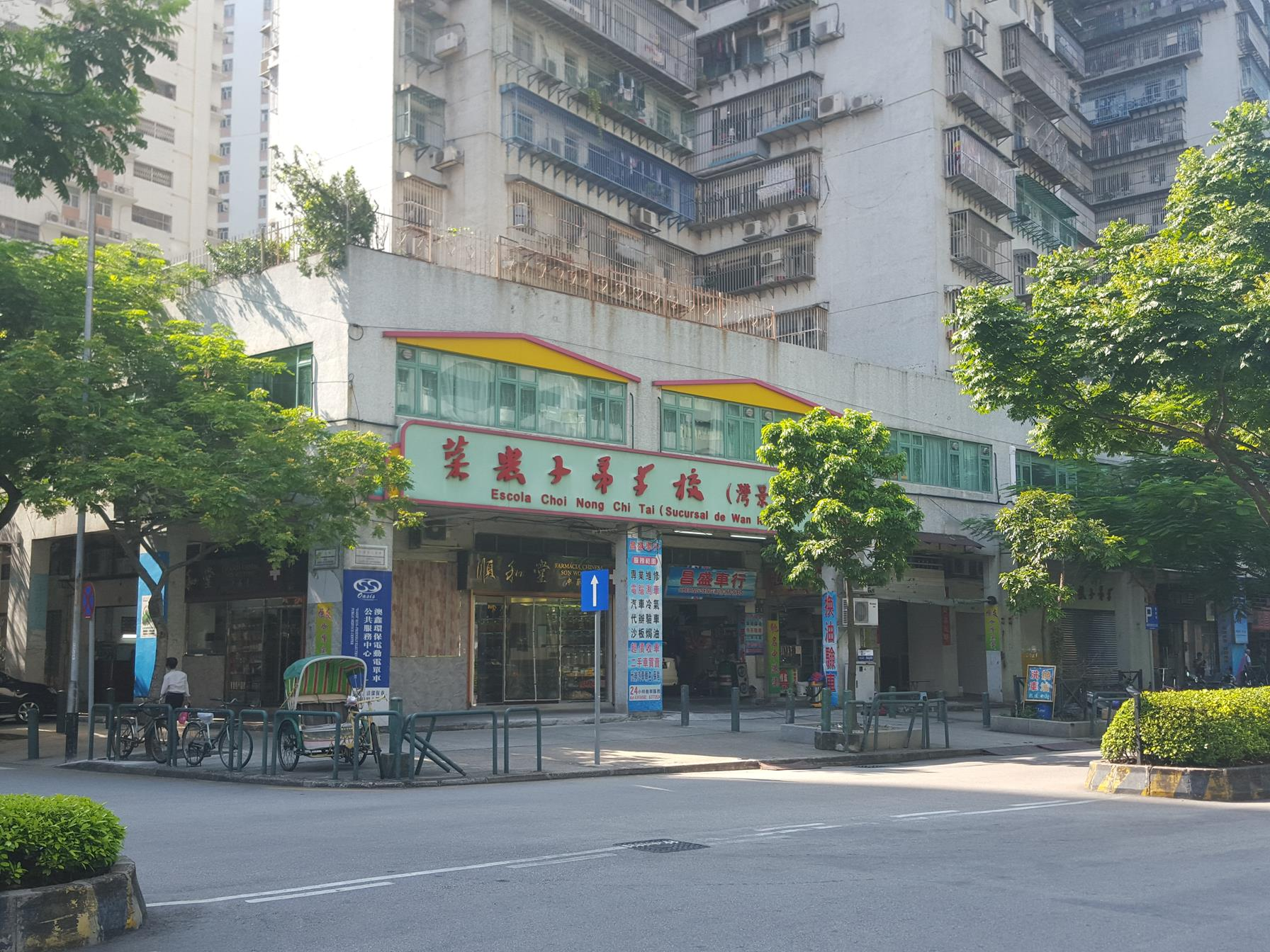 Choi Nong Chi Tai School